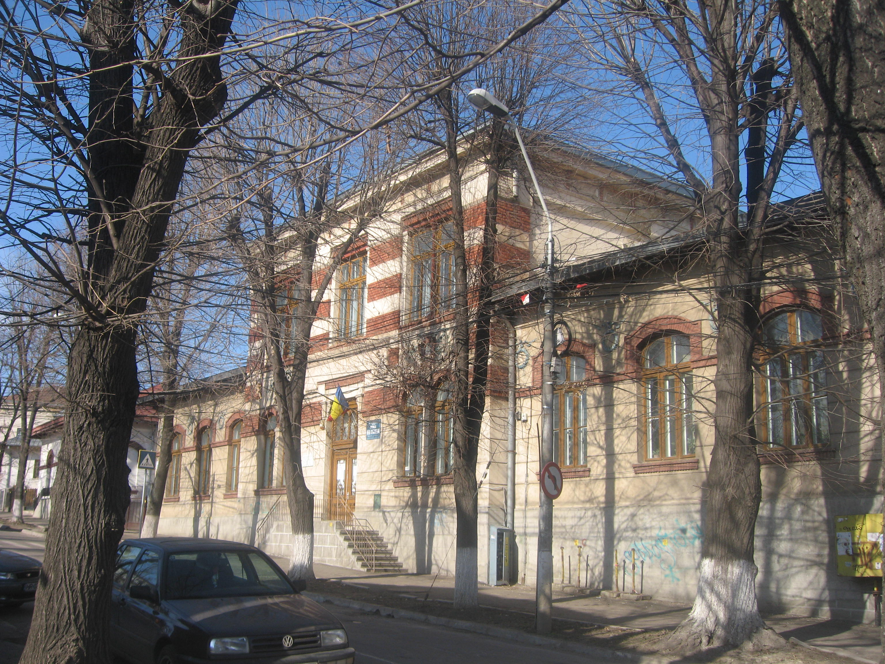 Mihail Kogălniceanu School in Iaşi (Romania), a building historical monument